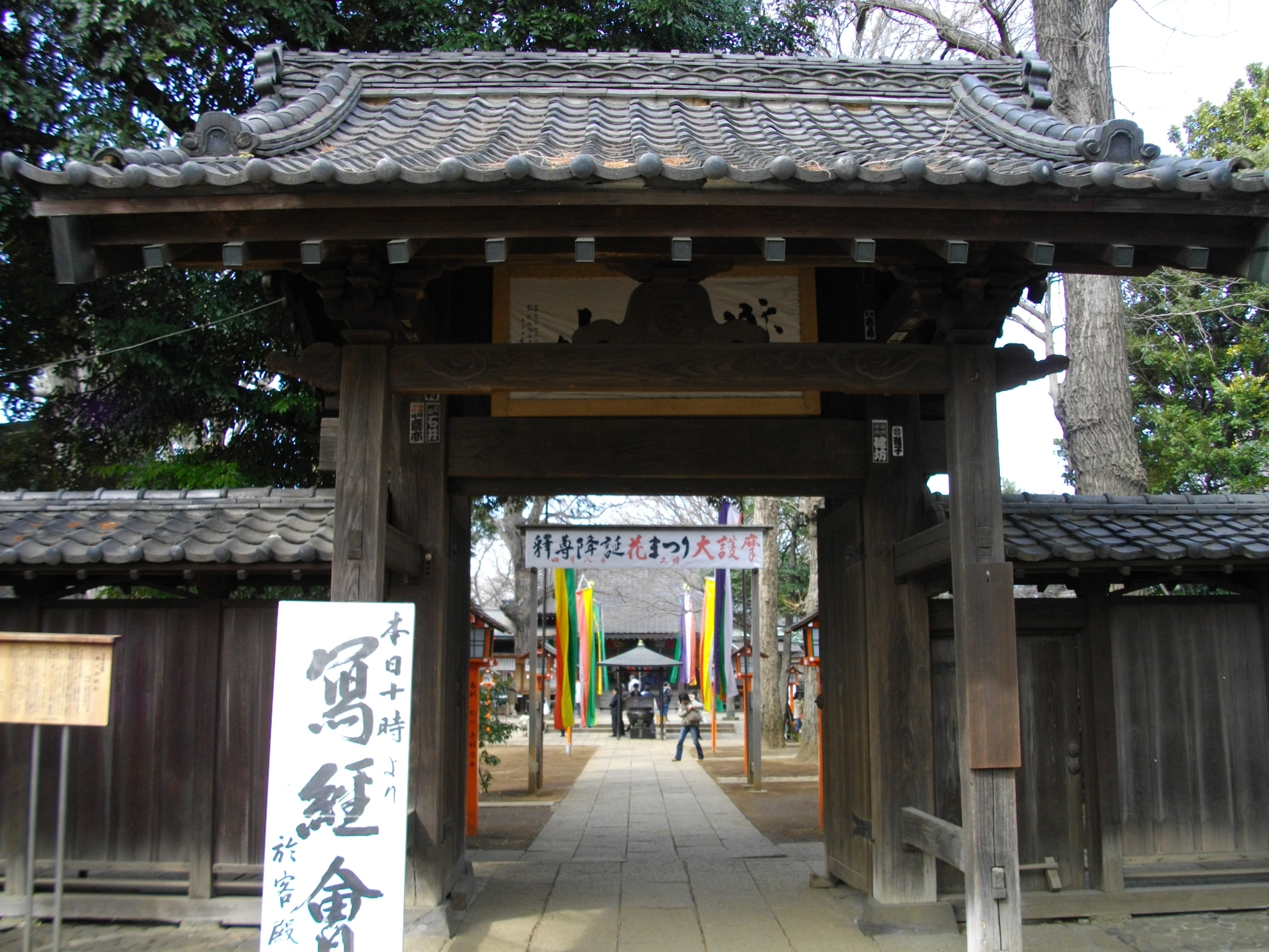 Todoroki-Fudō